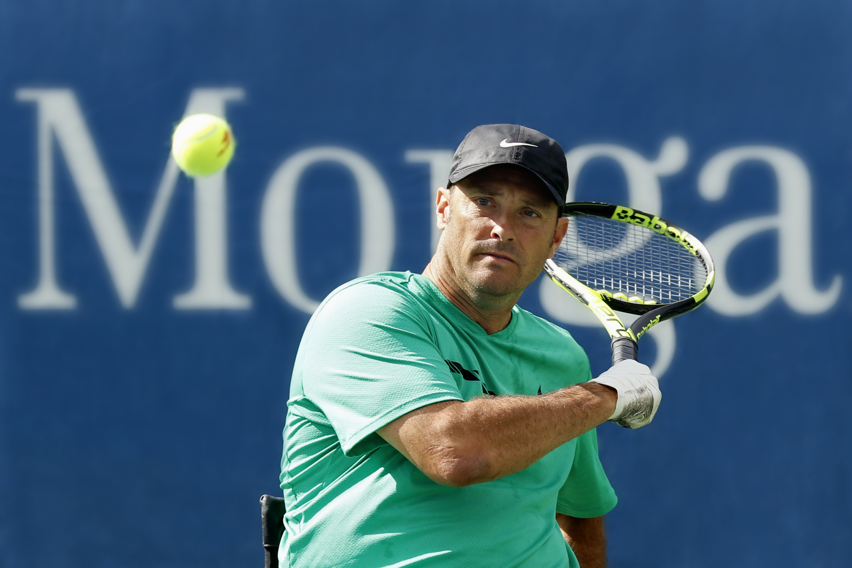 David Wagner during practice at the US Open 2017